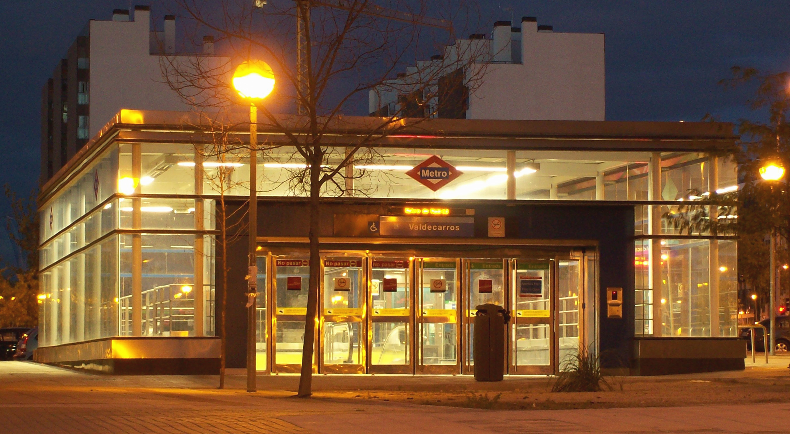 Entrance of Valdecarros Metro station in Villa de Vallecas district in Madrid (Spain).